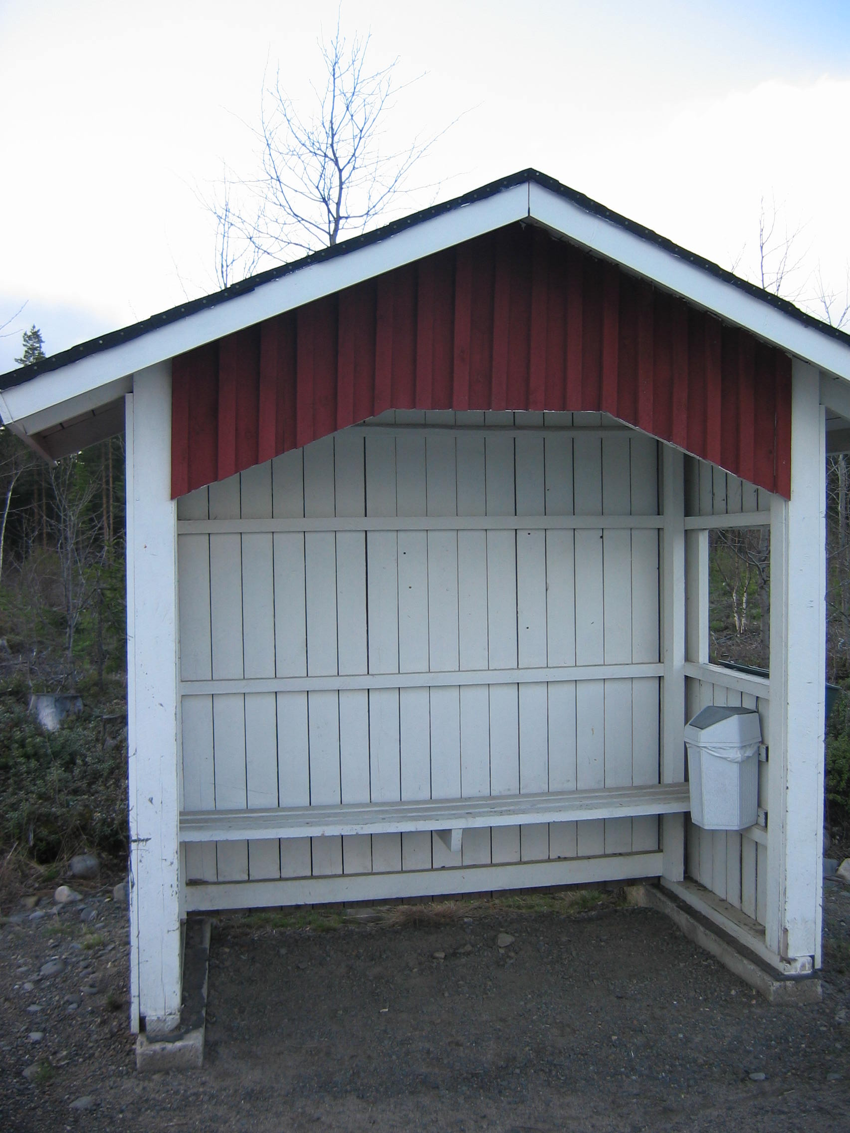 A coutryside bus stop at the regional road 836 in Ylikiiminki, Finland